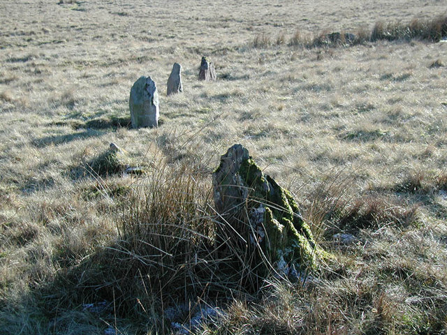 Trecastle Mountain Stone Circle detail. Some of the small stones that make up the Eastern most circle of the pair on Trecastle Mountain.